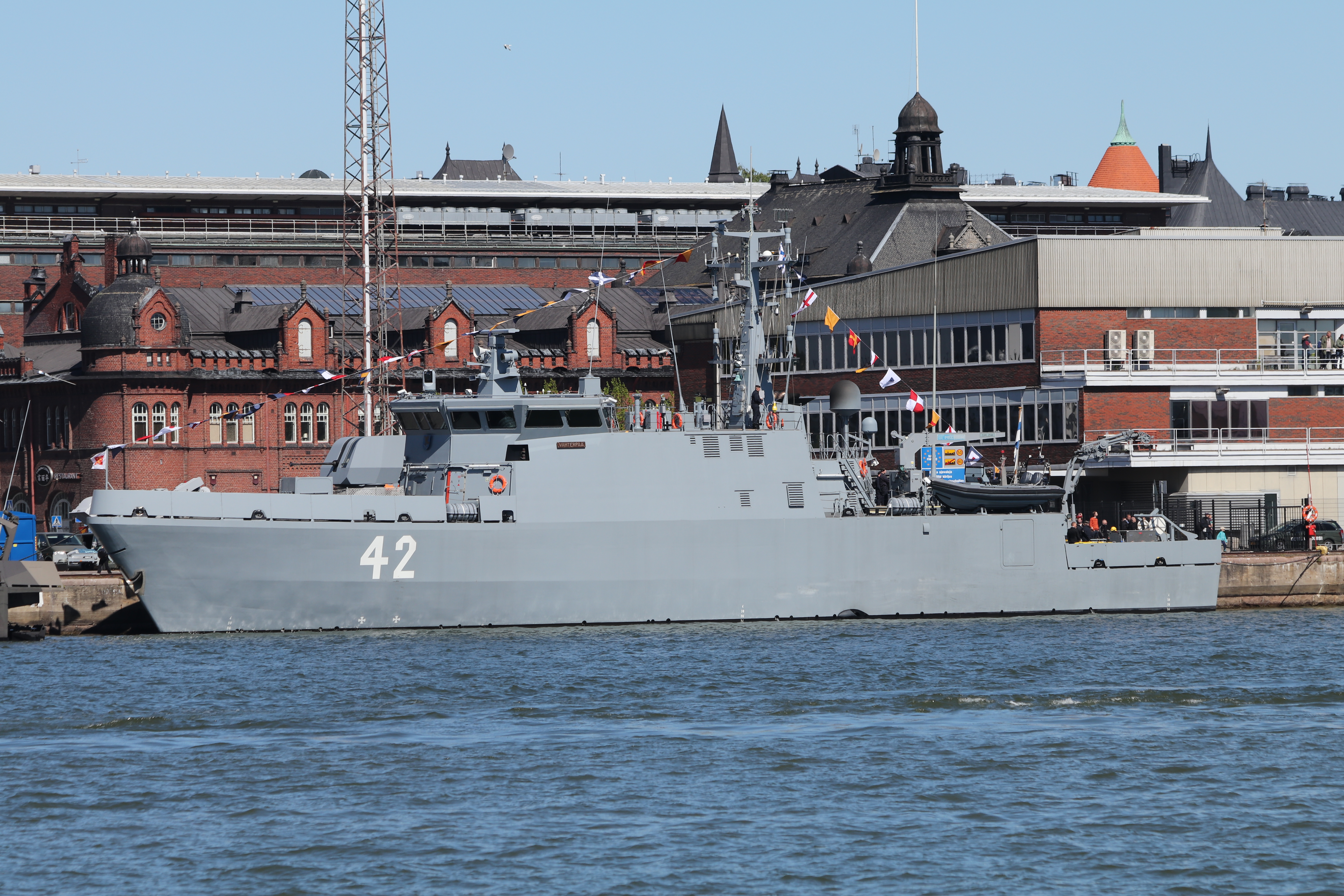 Finnish defence forces flag day 2017 naval review: mine countermeasure vessel Vahterpää.